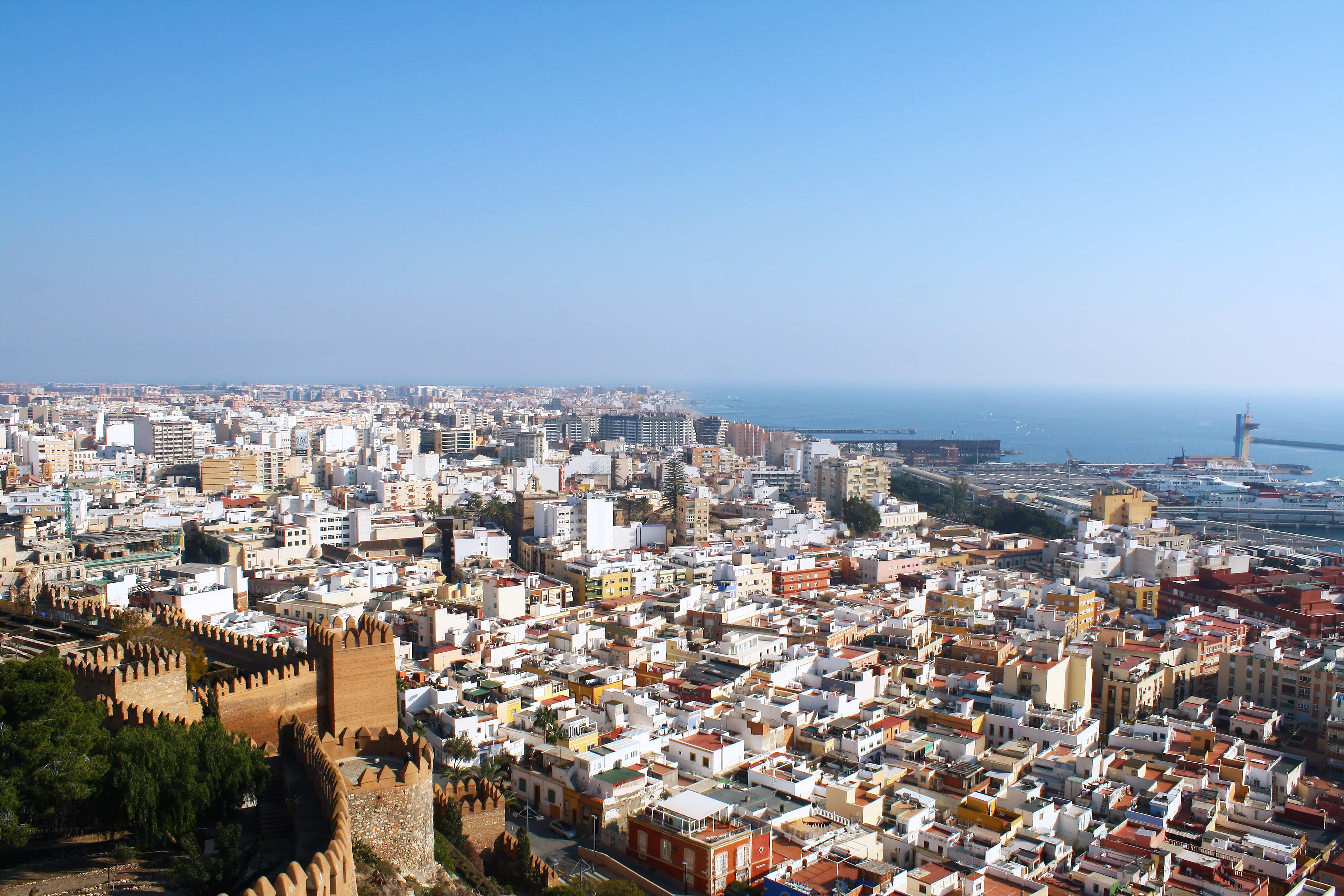 Views from the Alcazaba de Almeria.